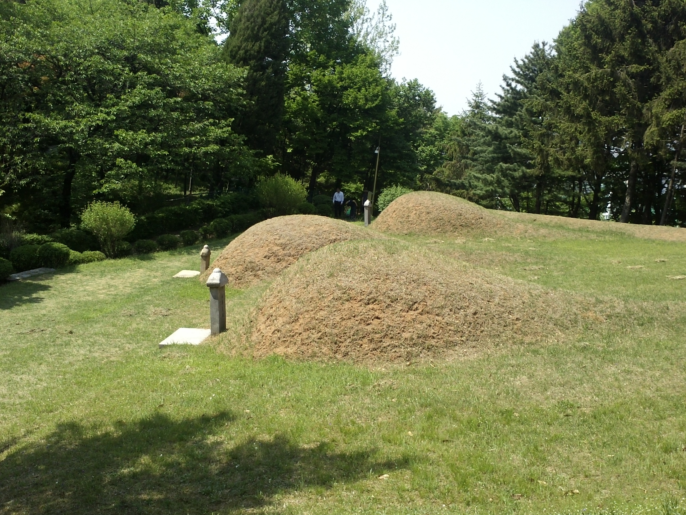 Sayukshin tomb